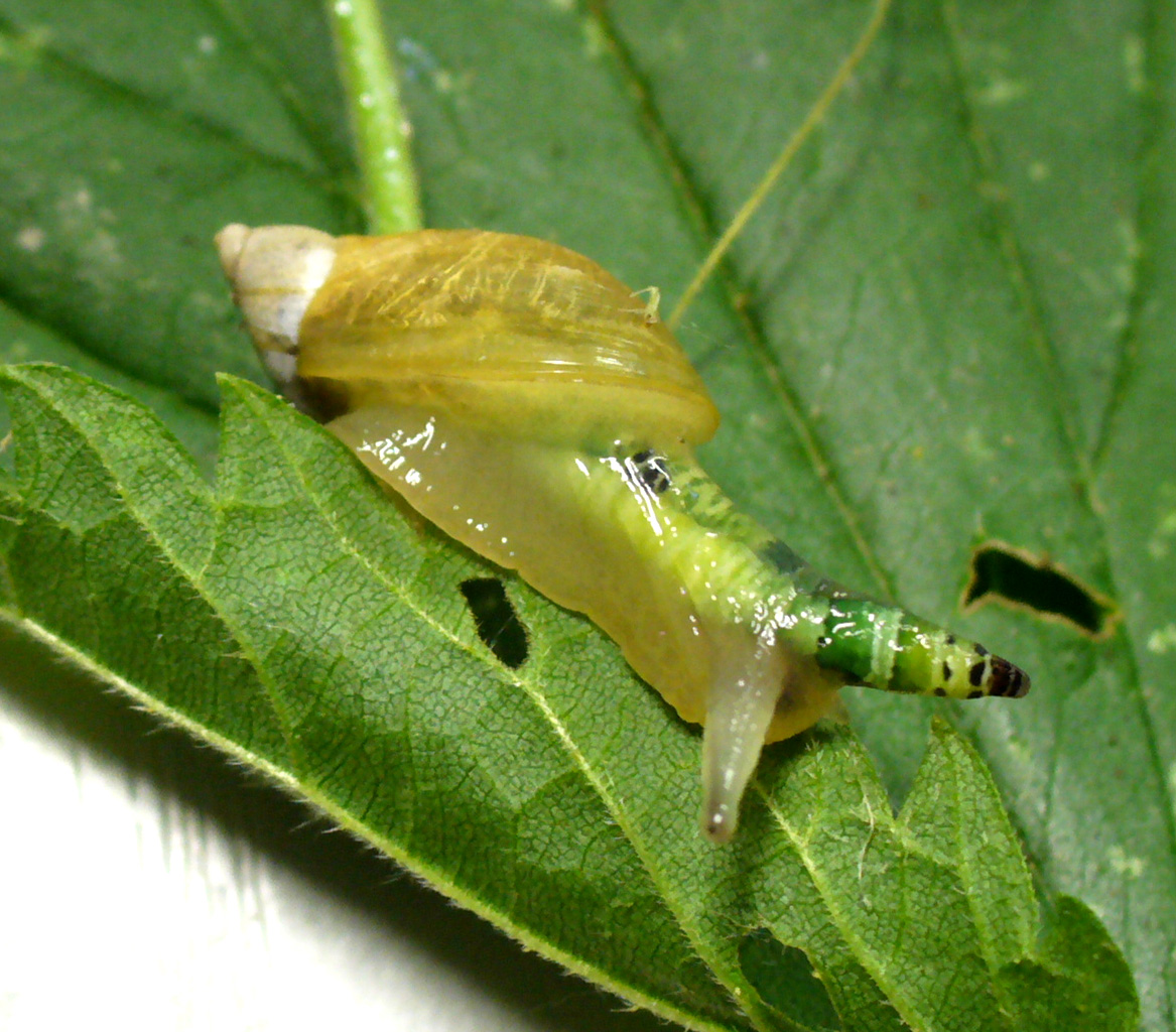 Succinea putris (snail) with the parasitic trematode Leucochloridium paradoxum inside its left tentacle. Seen near Finowkanal, in Eberswalde, Brandenburg, Germany.